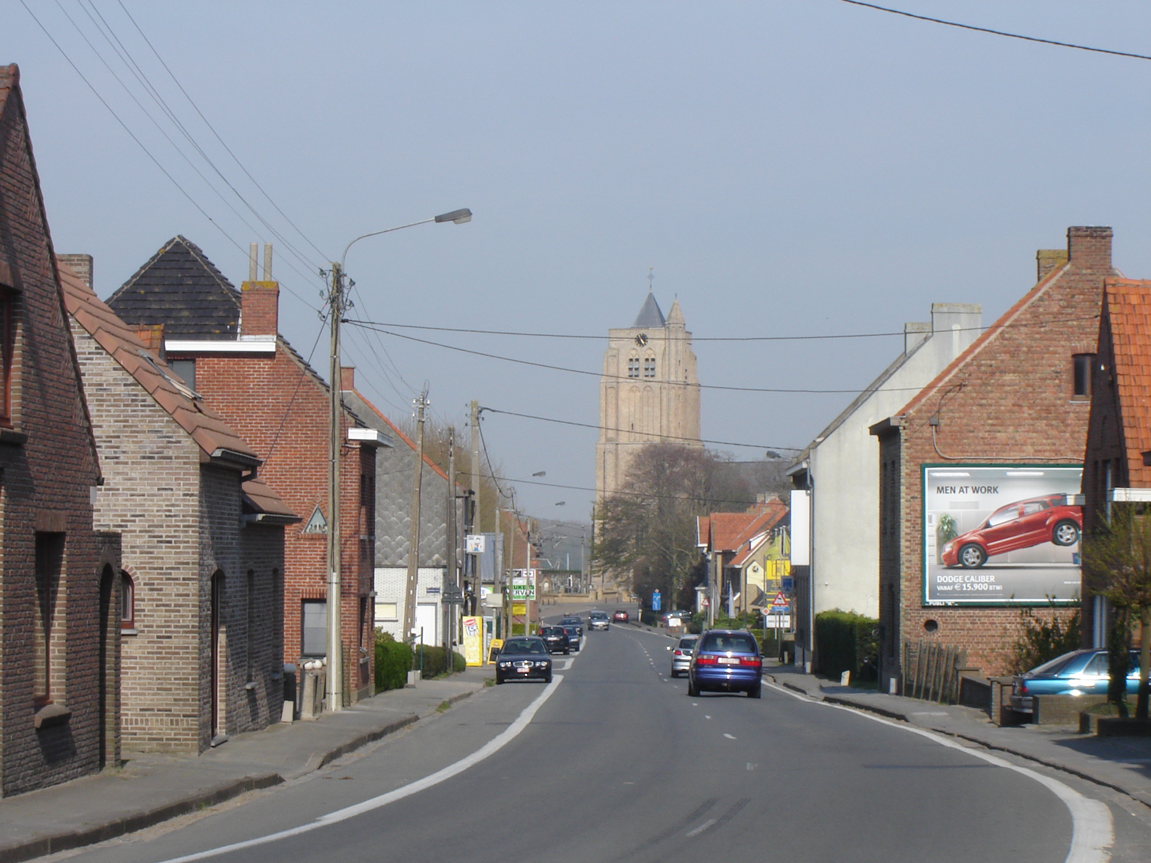 Village of Esen and the Esenweg street, coming from Diksmuide centre. View on church of Saint Peter . Esen, Diksmuide, West-Flanders, Belgium